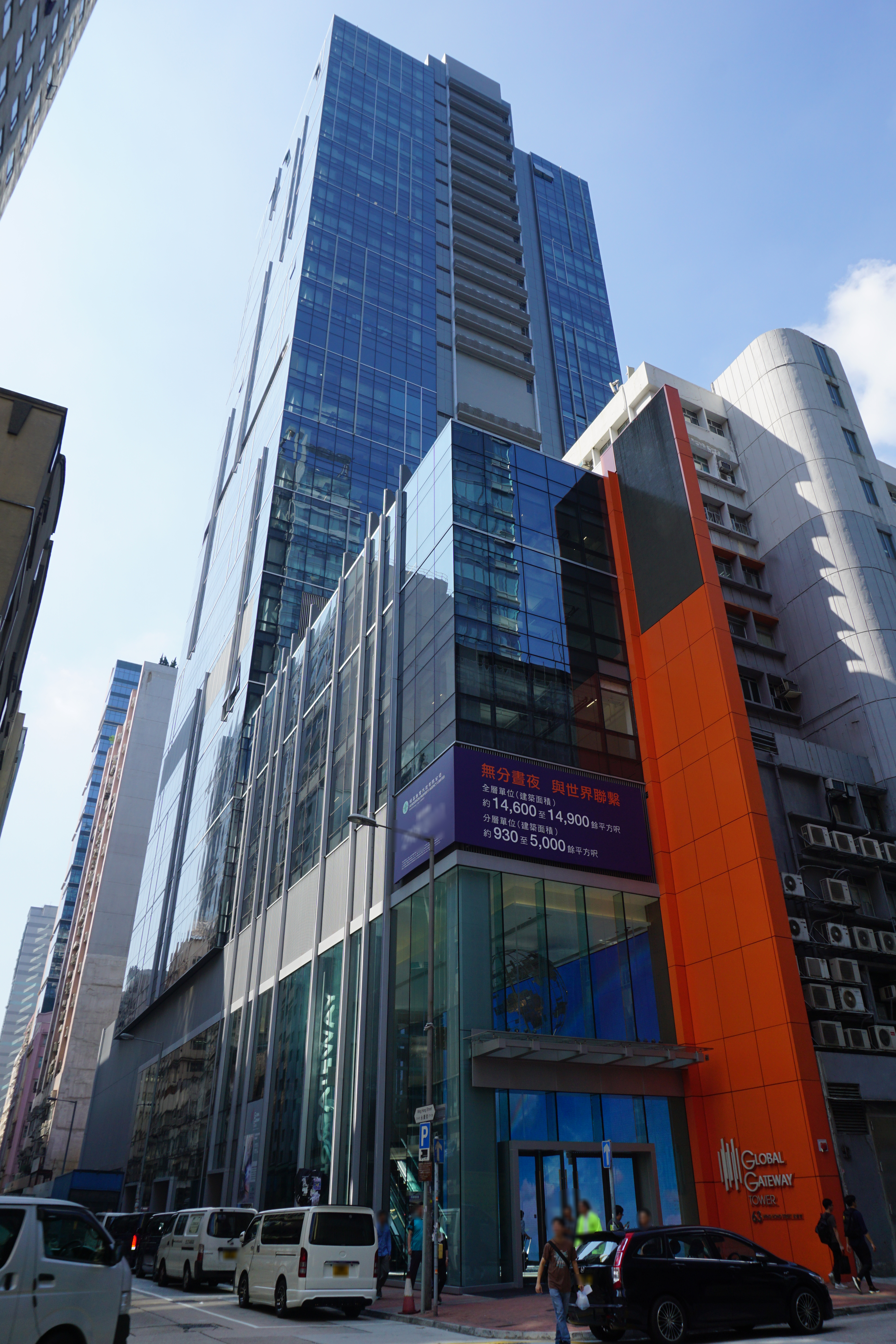 Global Gateway Tower in Lai Chi Kok, Hong Kong.